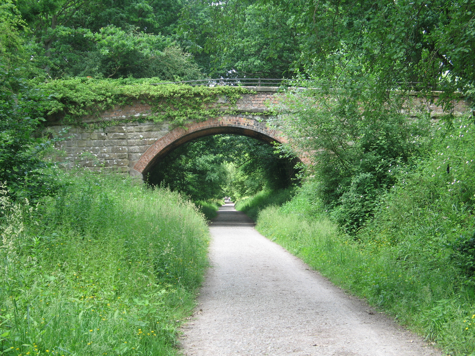 The Forest Way pathway in East and West Sussex. Picture taken at the Luxfords Lane bridge near East Grinstead